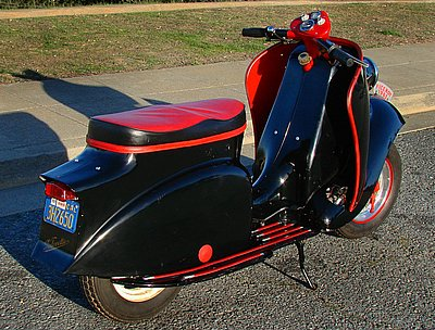 Photo of a 1961 Velocette Viceroy scooter, photo by author.